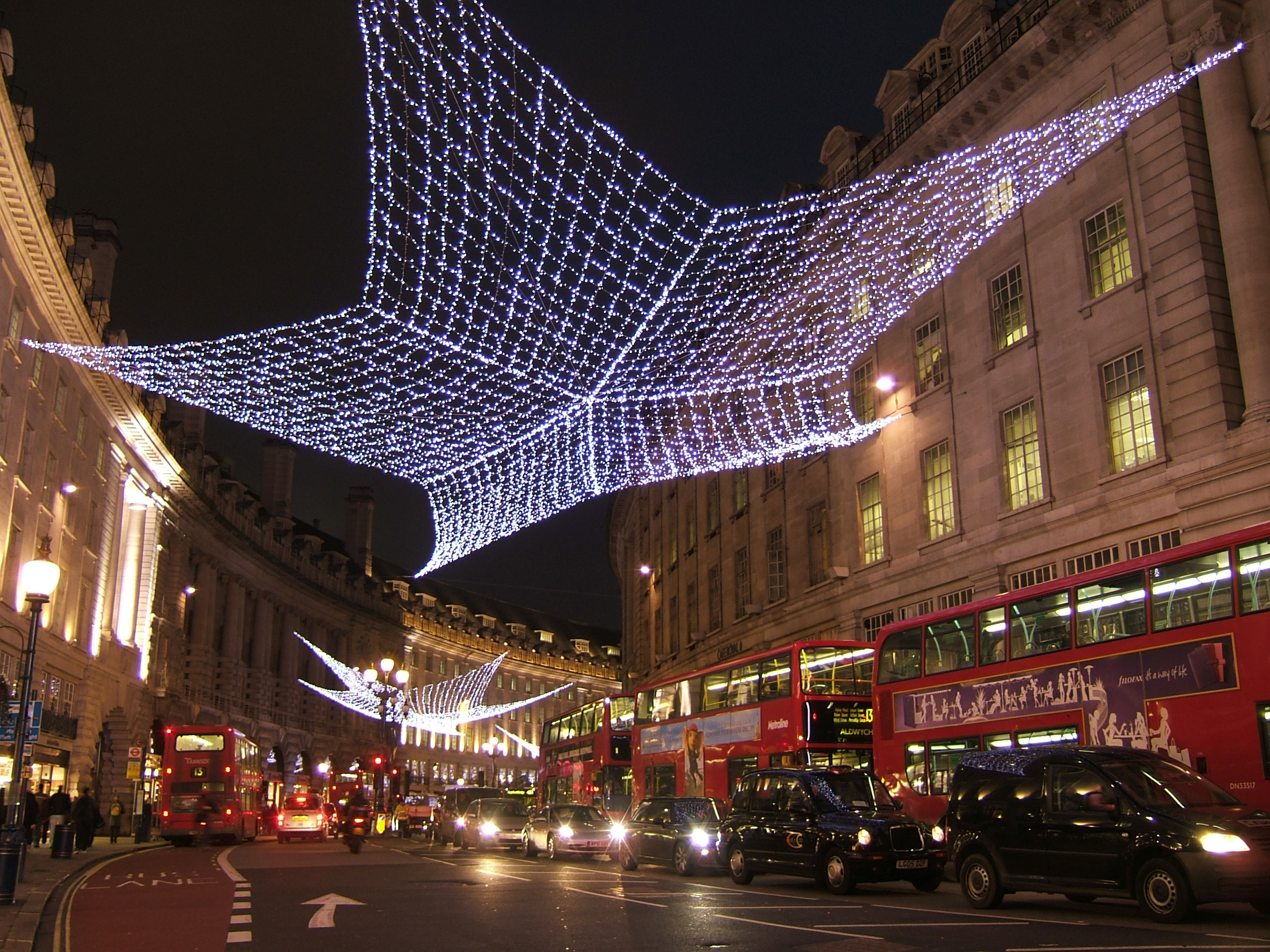 Regent Street 2008 Christmas Lights